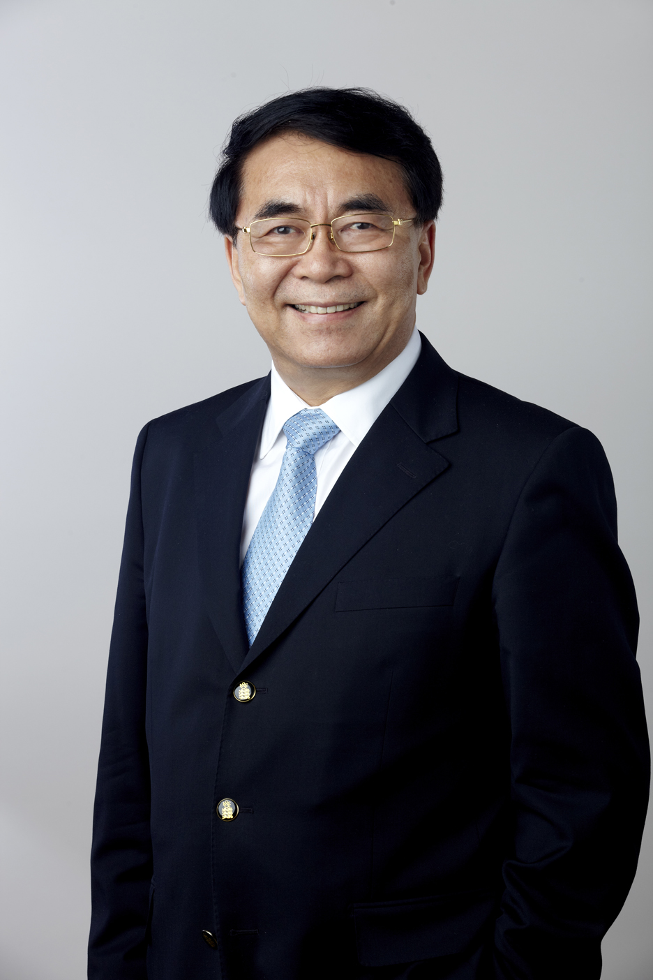 Professor Chunli Bai ForMemRS, elected Foreign Member of the Royal Society in 2014. Attribution: The Royal Society